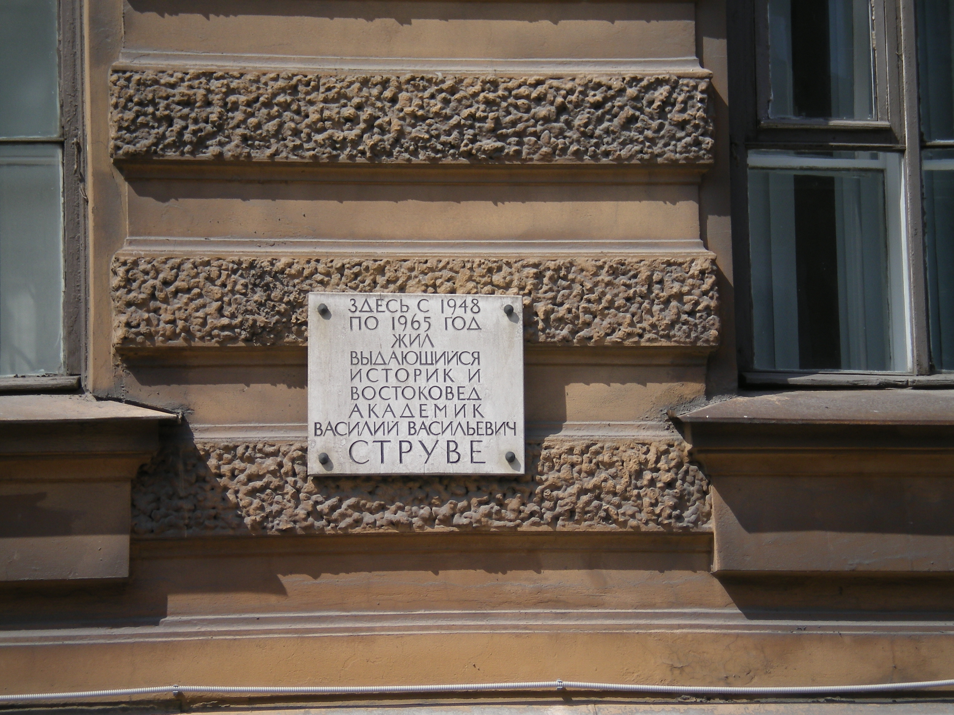 The plate on the Palace of Grand Duke Vladimir Alexandrovich. „Struve was living here in 1948-1965 years“